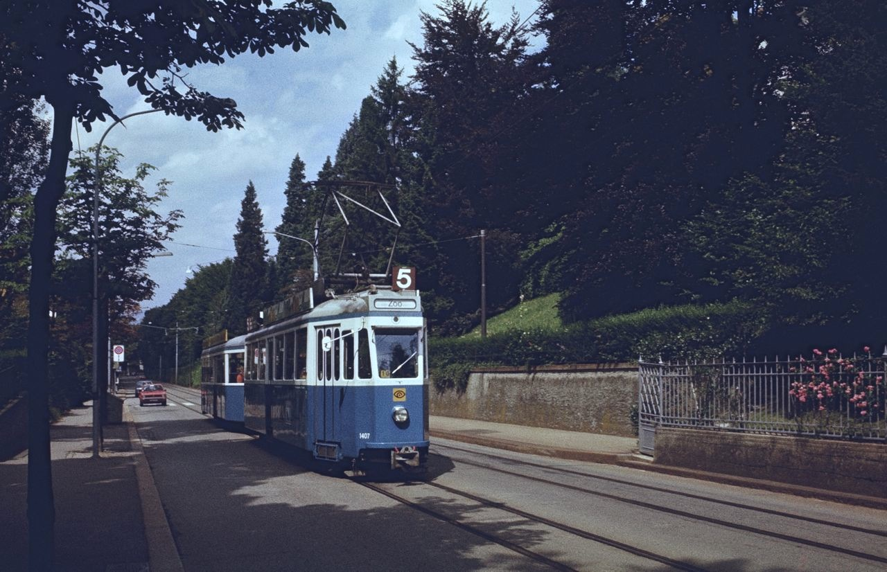 Zürich in 1979: A Swiss Standard tramset led by car 1407 (built by SWS/MFO in 1951 or early 1952) on Krähbühlstrasse, Zoo-bound on route 5.